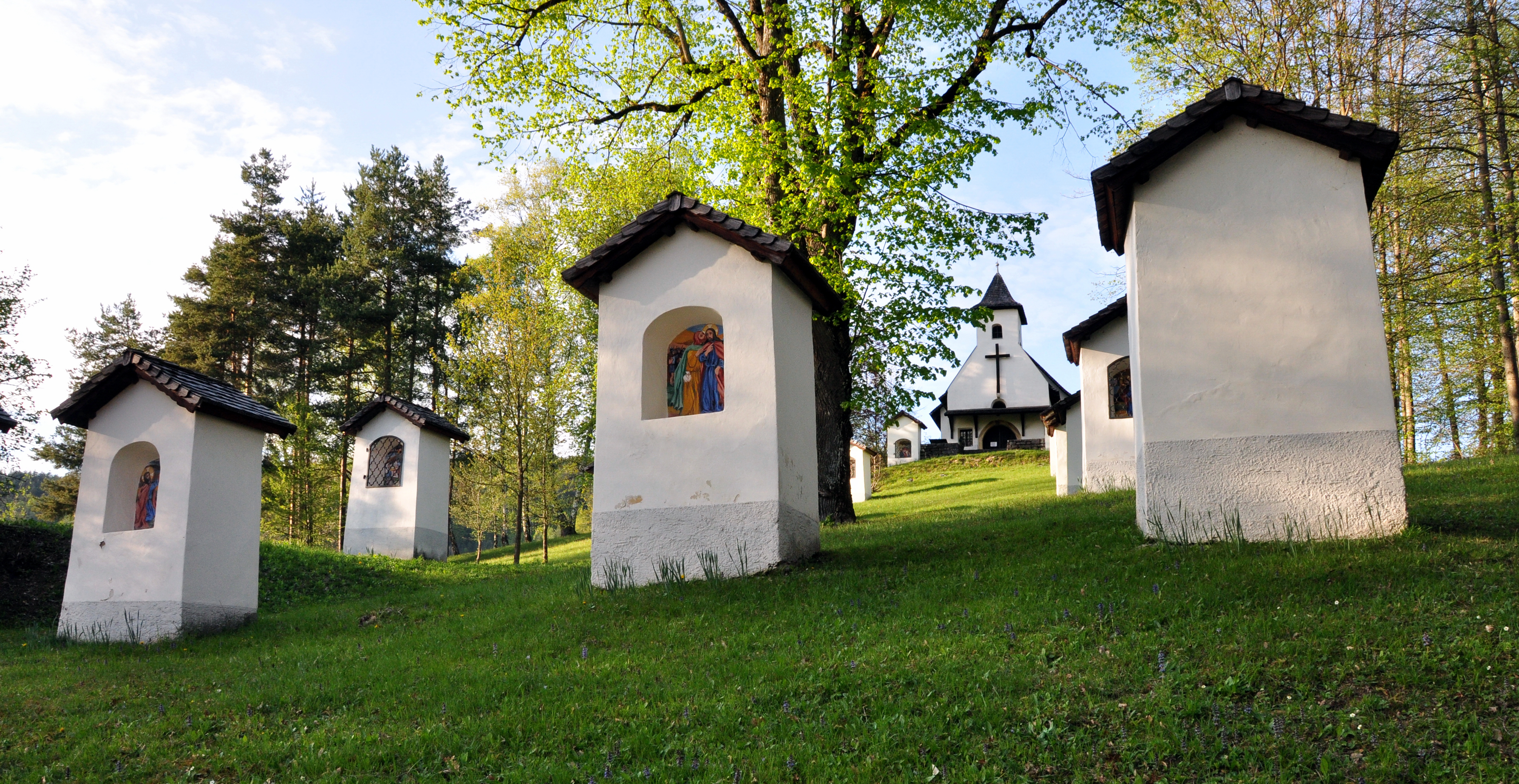 Calvary in the municipality Velden am Wörthersee, district Villach Land, Carinthia, Austria